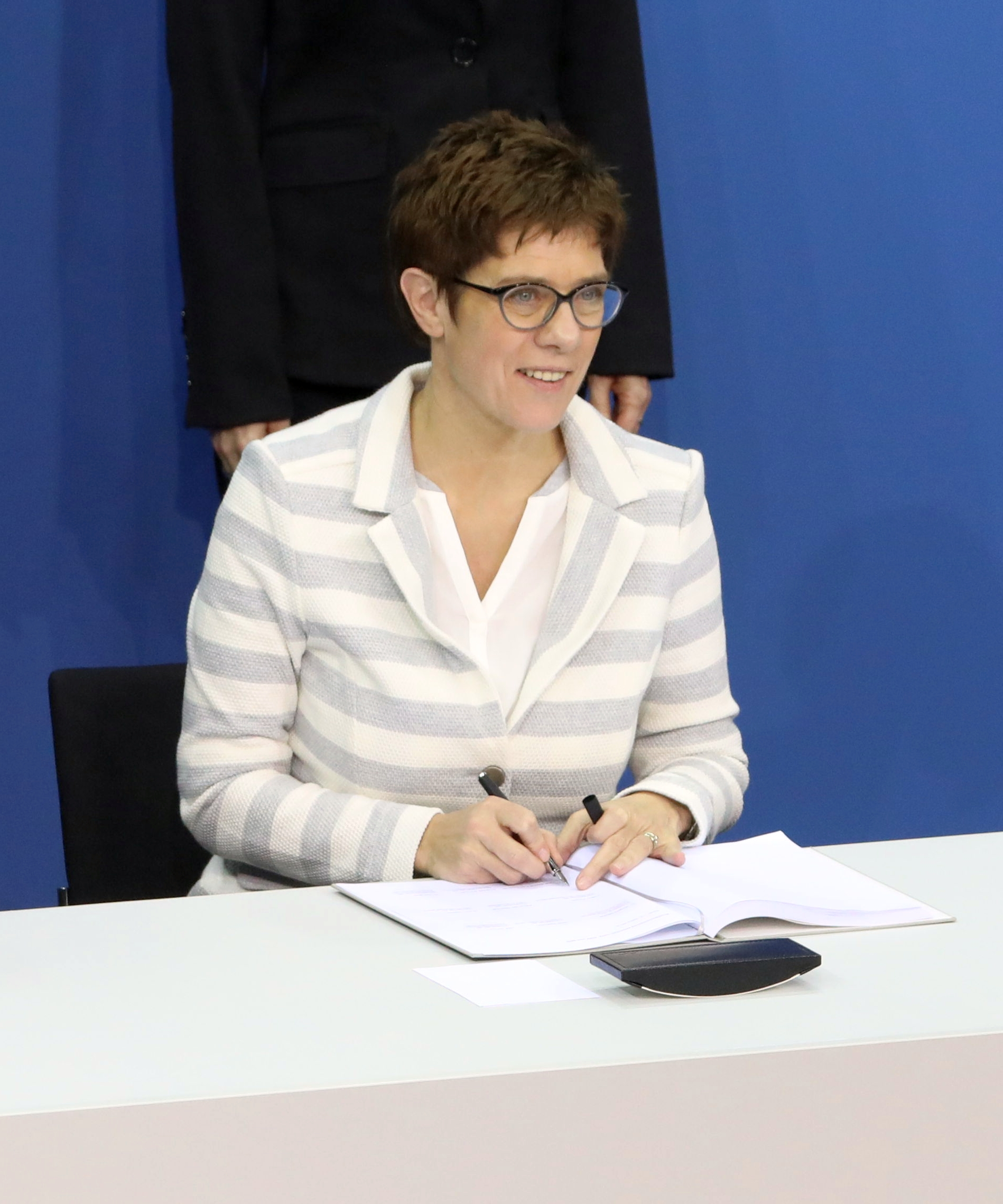 Signing of the coalition agreement for the 19th election period of the Bundestag: Annegret Kramp-Karrenbauer